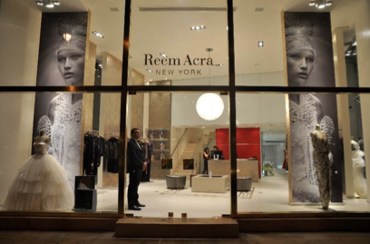 A photograph through the front window of Reem Acra's New York City boutique.